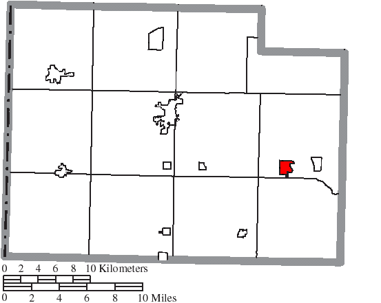 Map of the municipal and township boundaries of Paulding County, Ohio, United States, as of the 2000 census, with the location of the village of Melrose highlighted. Township borders are shown only in unincorporated areas in order to differentiate incorporated and unincorporated areas more clearly.